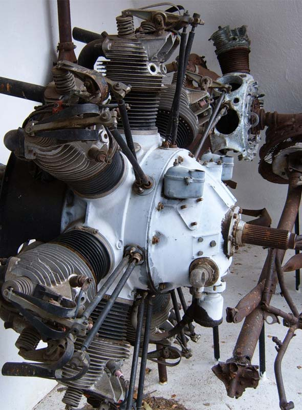 Armstrong Siddeley Lynx 7-cylinder radial engine from the Avro 618 Ten aircraft, "Southern Cloud", that crashed on en:21 March en:1931 in the Australian Alps' Toolong Mountain range. Its wreck was found on en:26 October en:1958 and is part of the Aviation Piorneers Memorial, Cooma, New South Wales, Australia. I took this picture on 19 May 2005. Peter Ellis 05:46, 21 May 2005 (UTC)